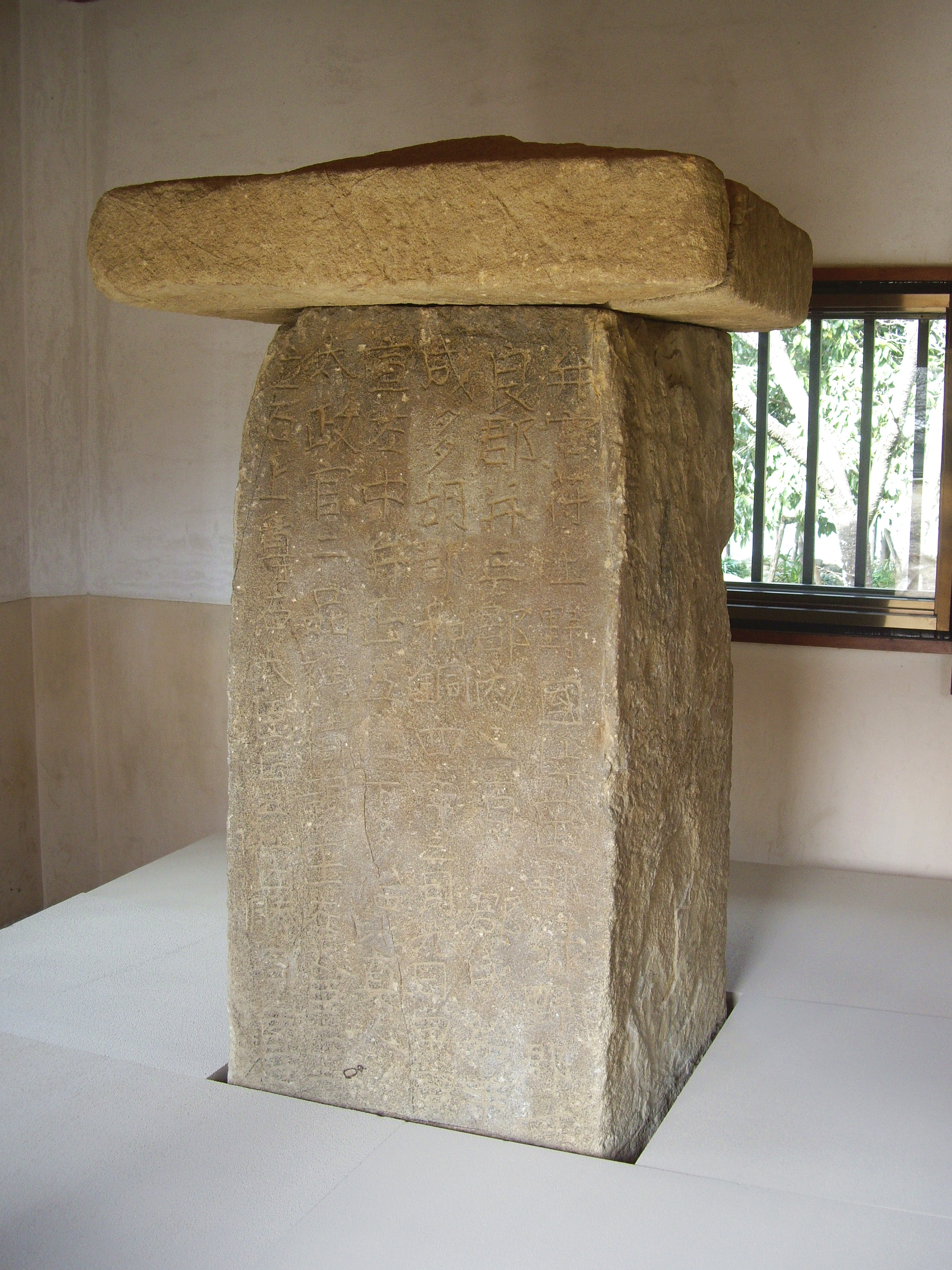 "Tagohi", The monument of Tago, in Takasaki, Gunma Prefecture, Japan